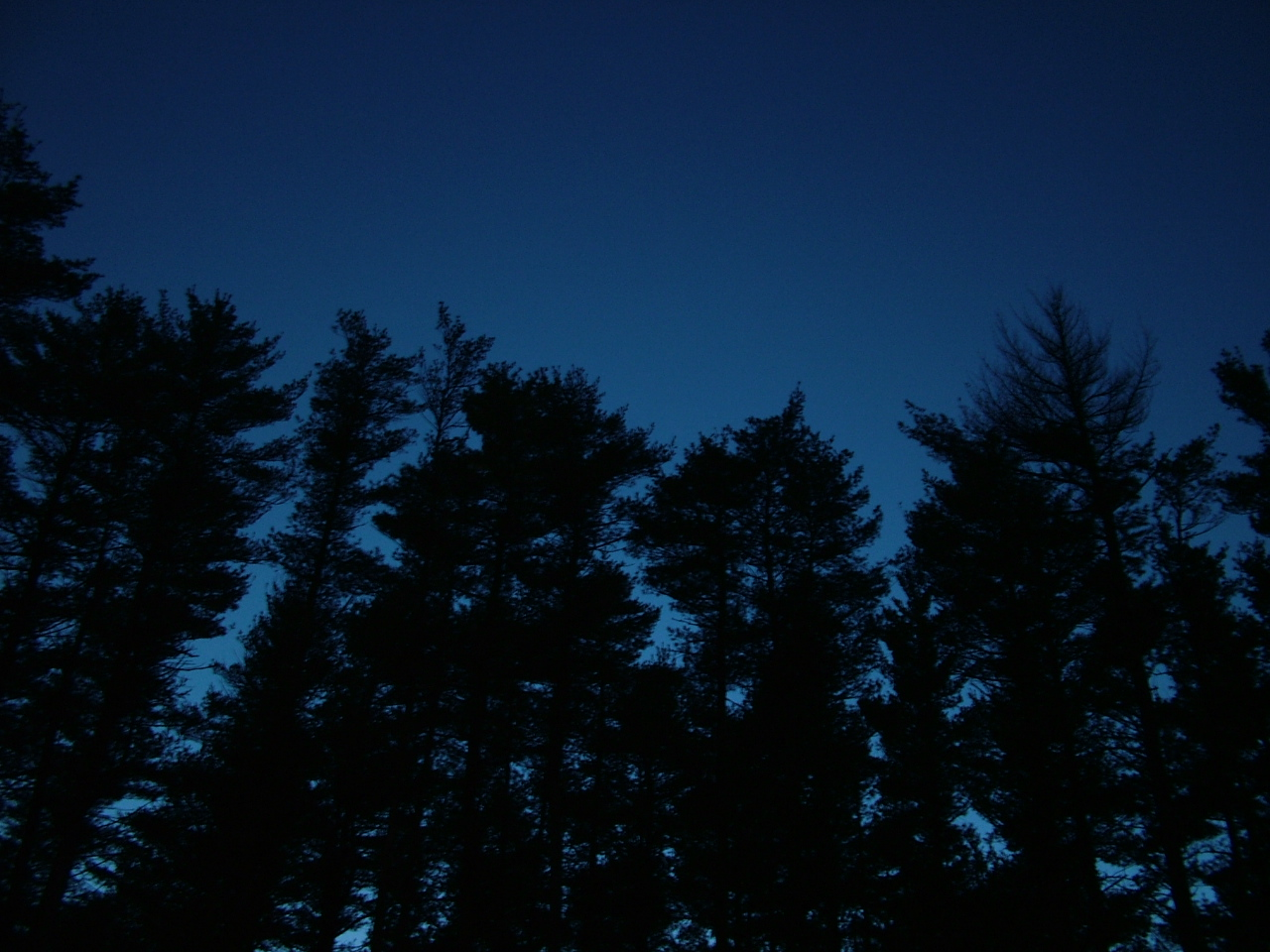 Picture I took at my friends house.